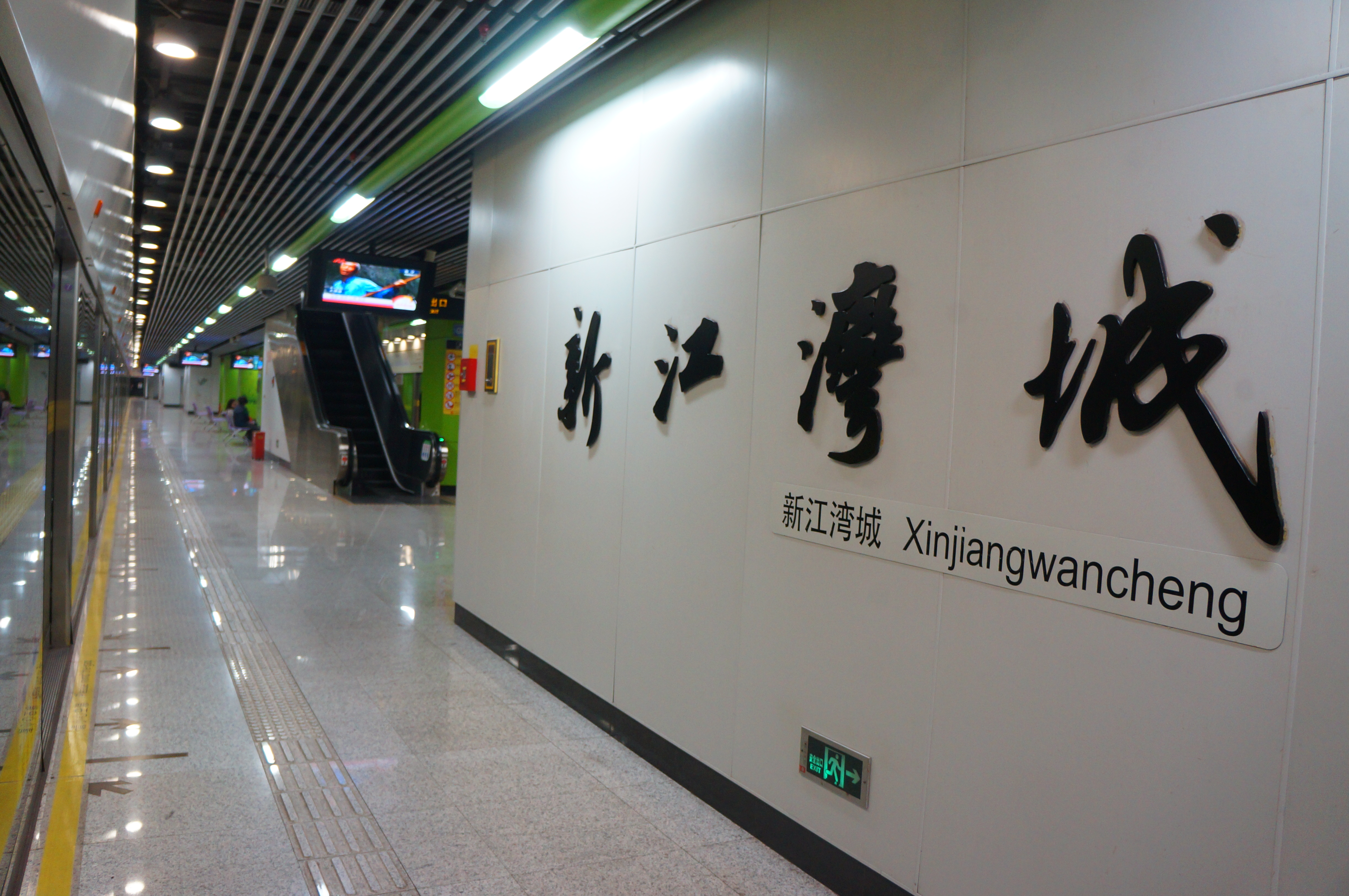 201704 Nameboard of Xinjiangwancheng Station